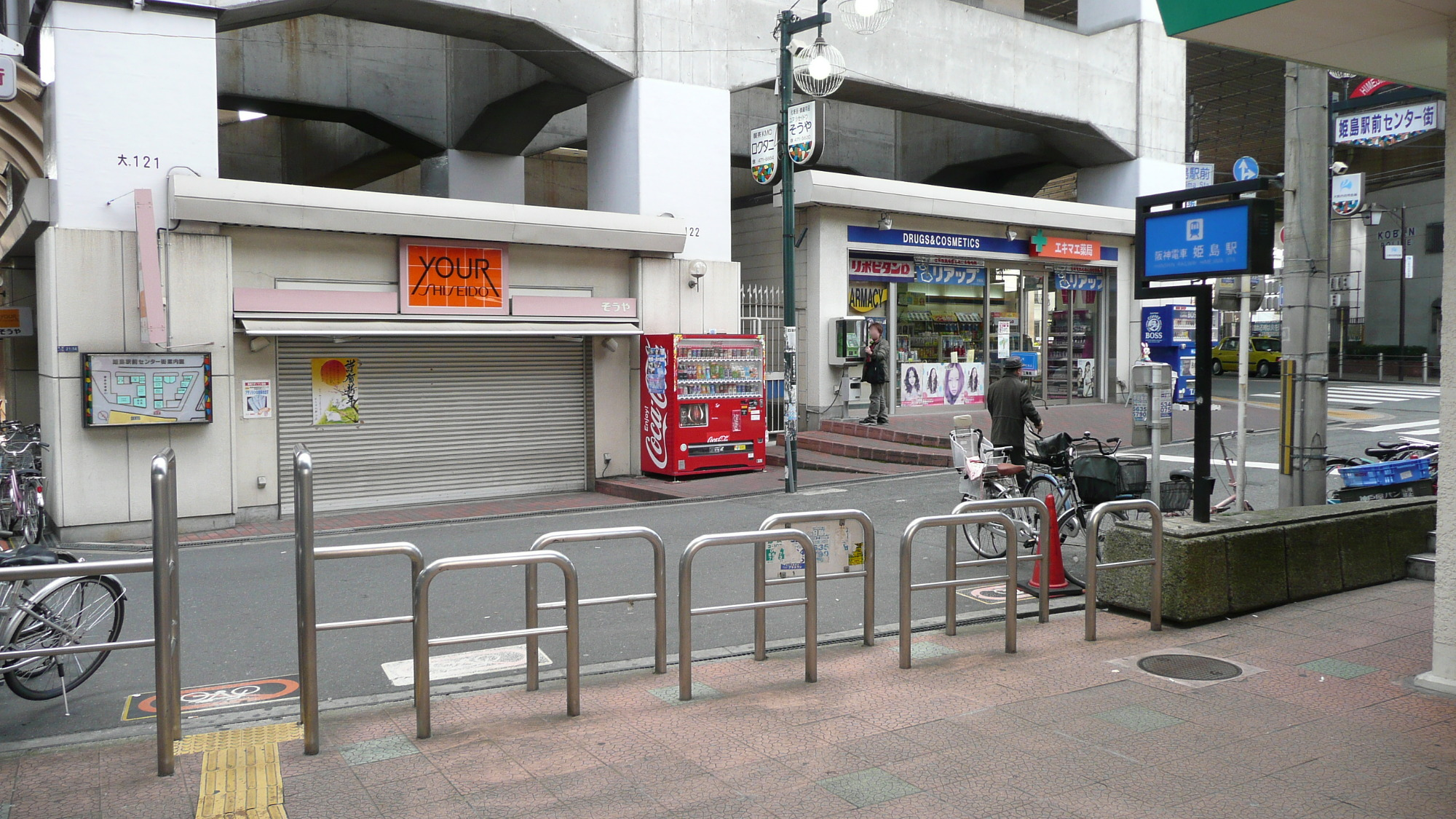 Hanshin Electric Railway,Main Line,Himejima Station west plaza. /阪神本線姫島駅西口前風景